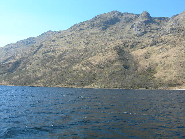 North side of Loch Shiel: Allt na Brachd on left Allt na Brachd is the dark line going up hill diagonally. Peak is Beinn Odhar Bheag I believe